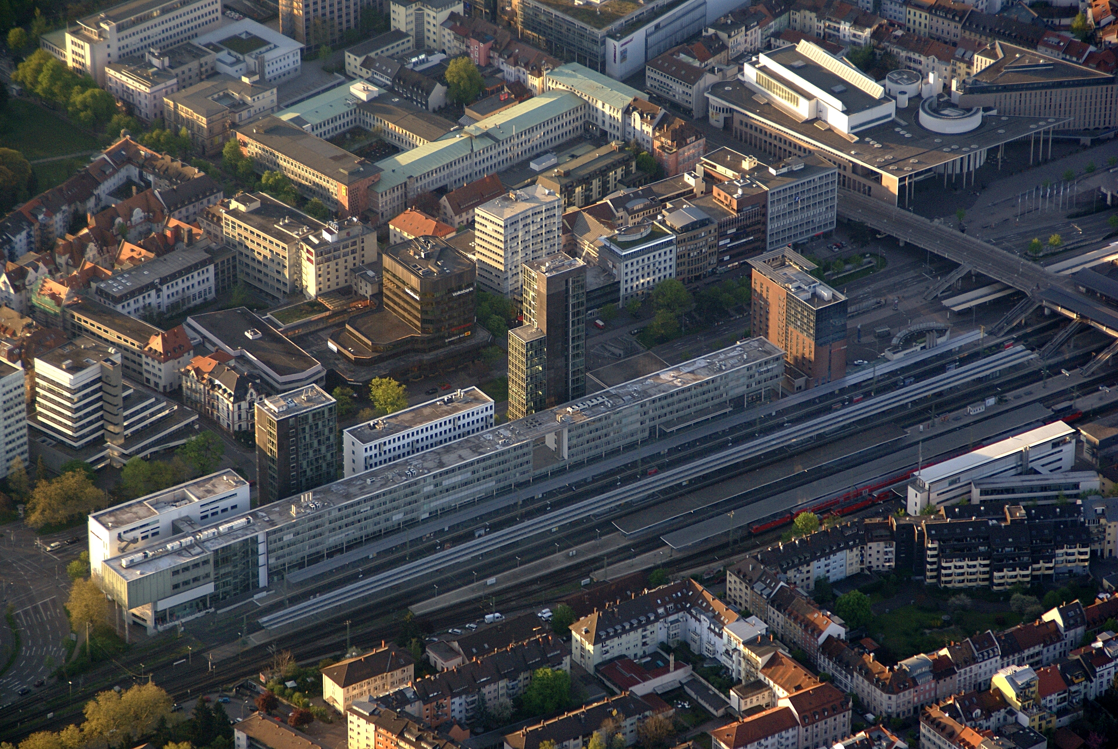 Aerial Photography from the Central Station in Freiburg, Breisgau, Germany